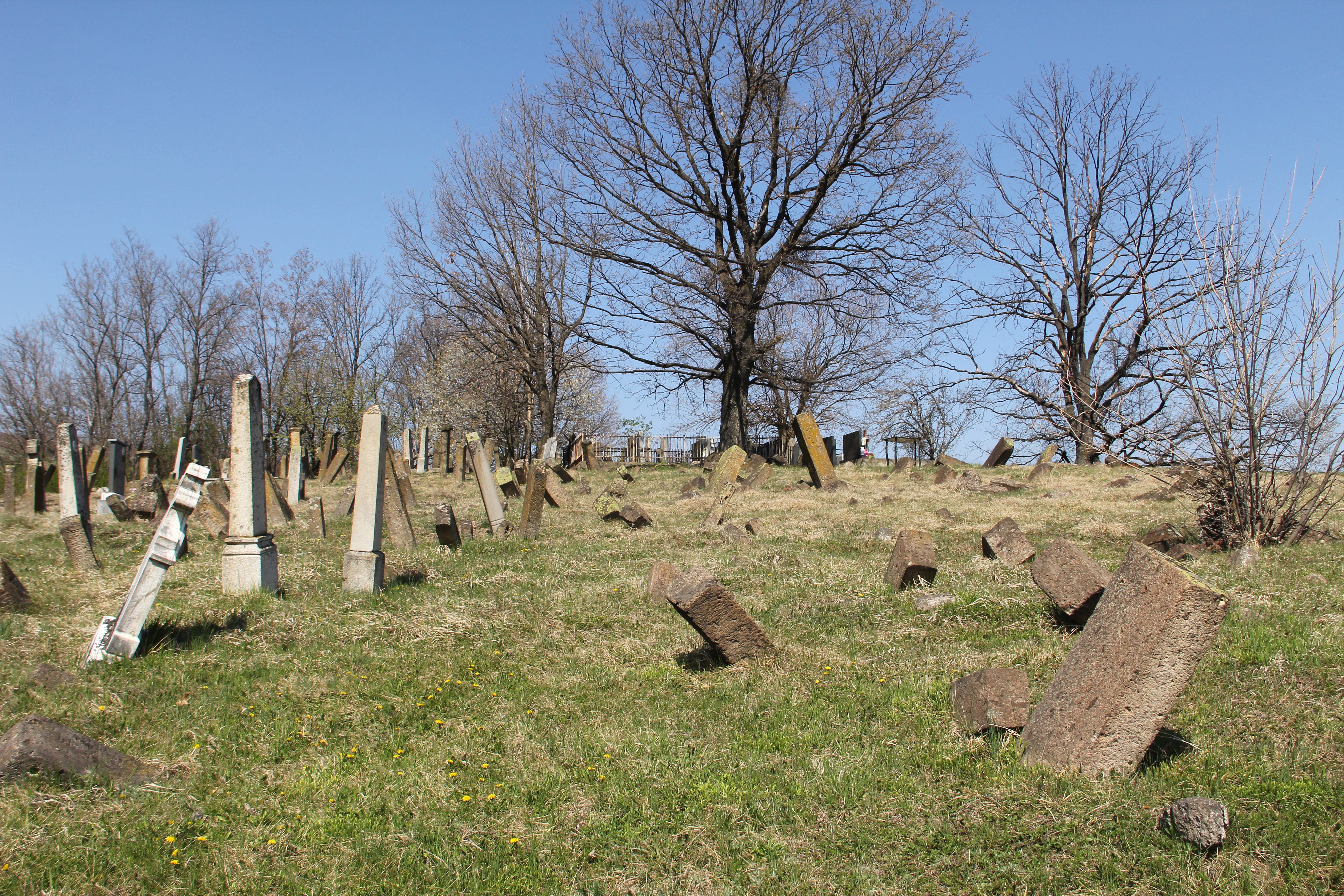 Old gravestones at the cemetery in the village of Dragolj (the municipality of Gornji Milanovac), Serbia.